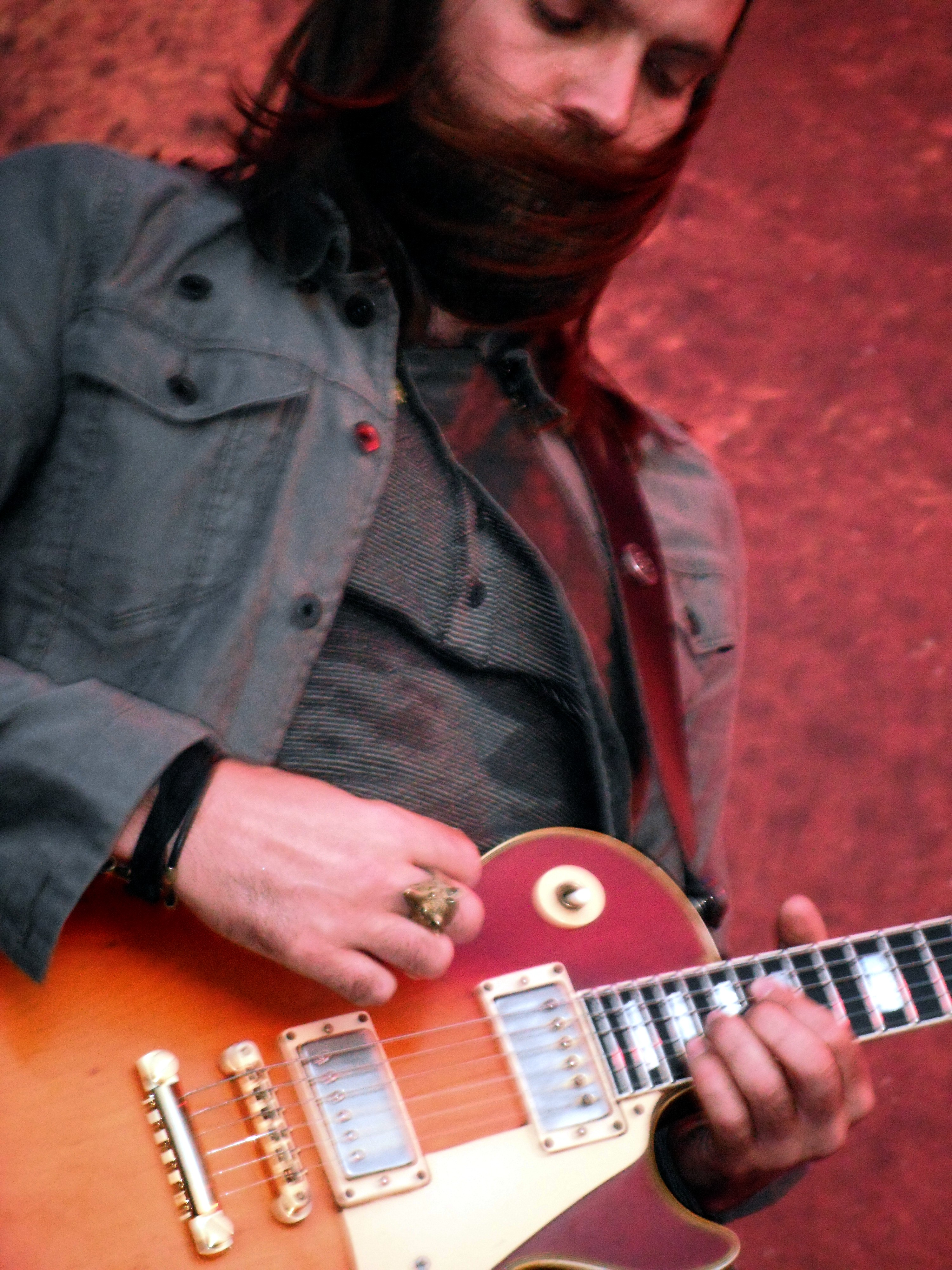 Epicenter Festival Fontana California Bush Chris Traynor